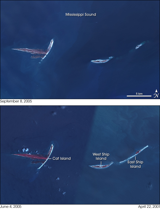 Two satellite images comparing Ship Island (Mississippi) and Cat Island (Mississippi) before and after Hurricane Katrina. The lower image is a composite of two separate photos from June 2004 (left) and April 2001 (right).